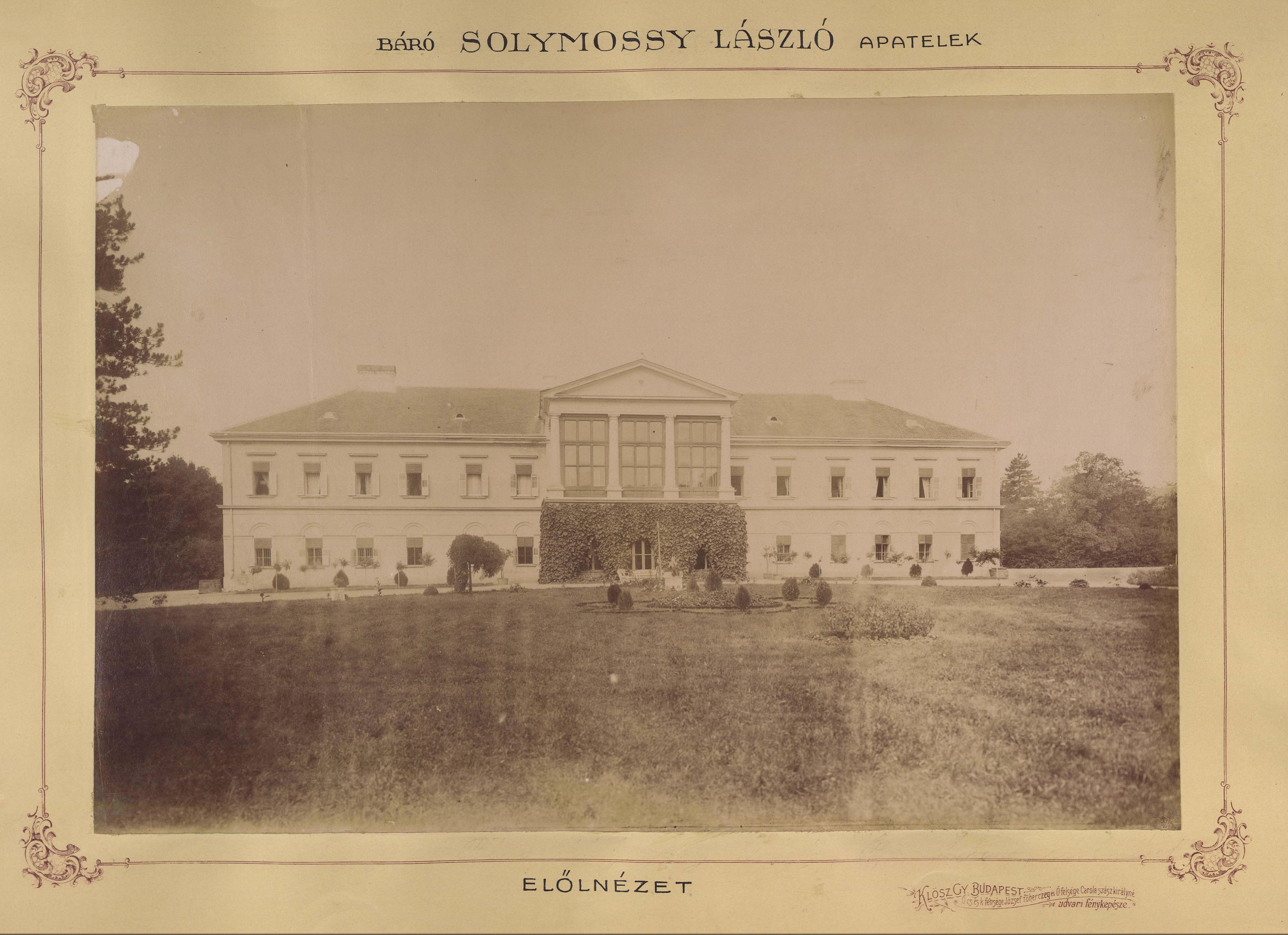 the mansion of László Solymossy in Mocrea/Apatelek in 1900 01